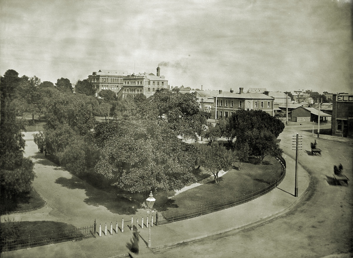 A photograph of Light Square Adelaide showing the Colonel Light Hotel uploaded by the State Library of South Australia.